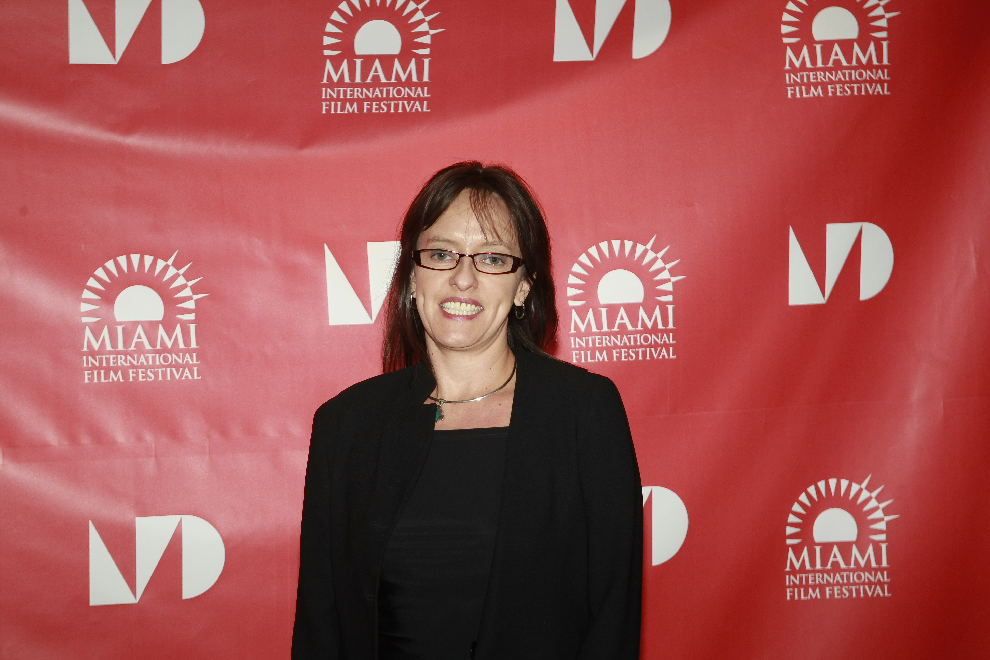 Director Tania Hermida at the 2012 Miami International Film Festival presentation of "In the Name of the Girl" at the MDC Tower Theater